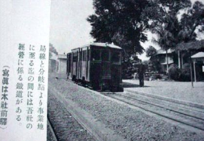 Honshamae Eki, which means In Front of the Company Railway Station Tainan, Taiwan